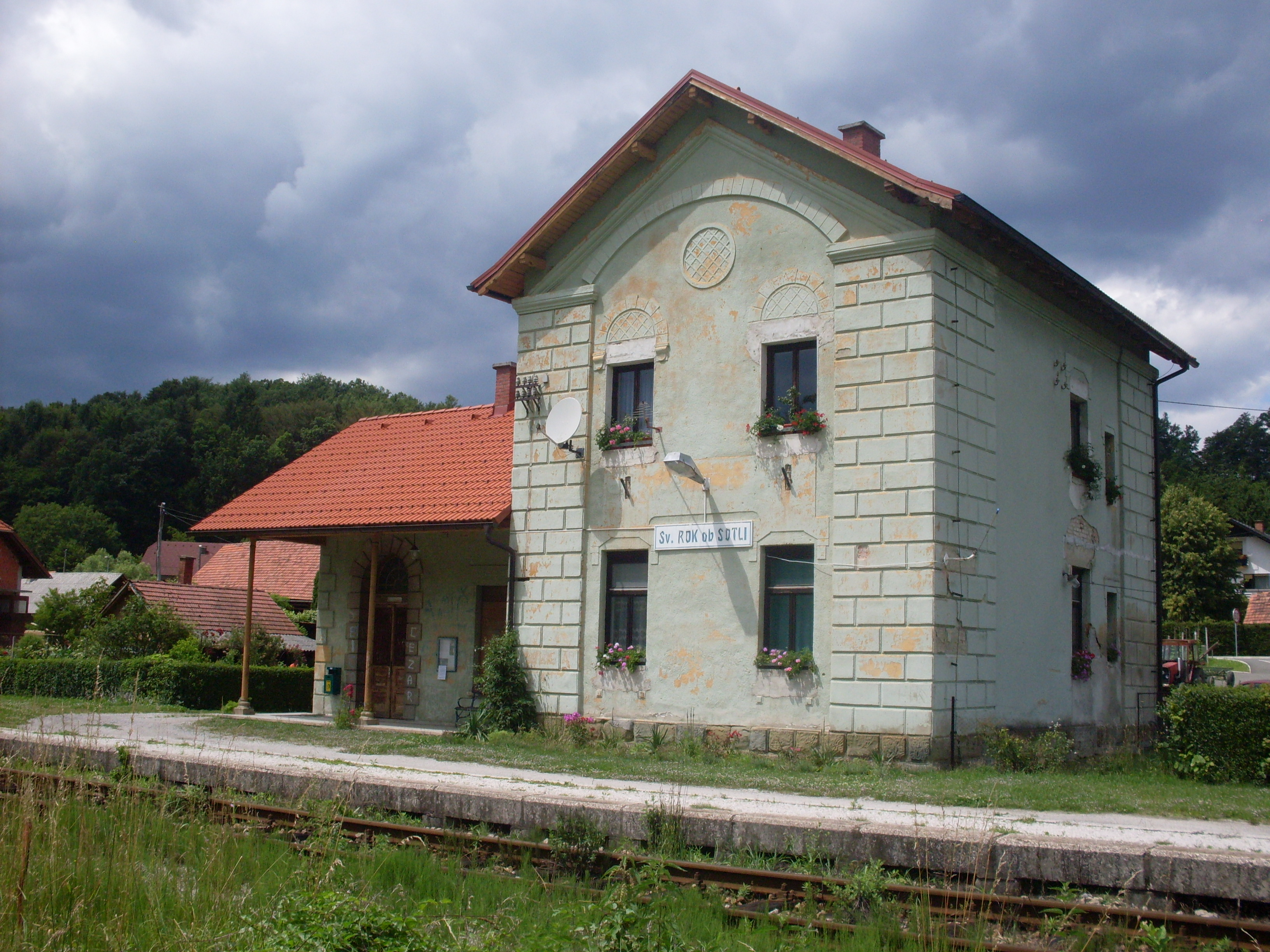 Railway halt Sveti Rok ob Sotli (until 1991: Lupinjak) in Dobovec pri Rogatcu